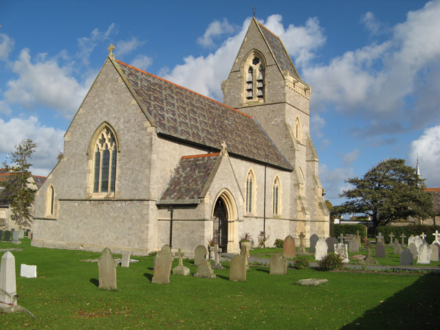 St. Mary's church A very fine church, consecrated in 1873, which seems to be out of place in its present surroundings. The detail of the slates on the roof is a particularly fine example of the craft.